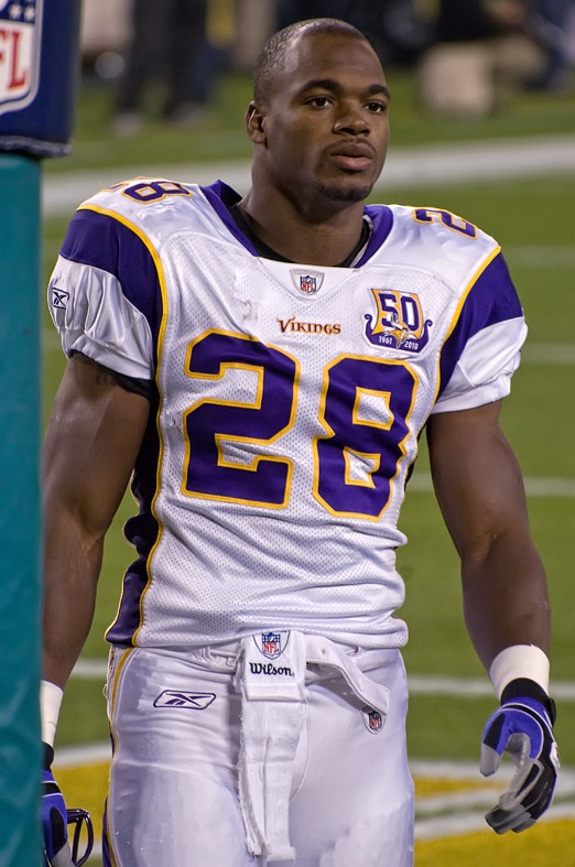 Lambeau Field, October 24, 2010. Photo by Mike Morbeck.